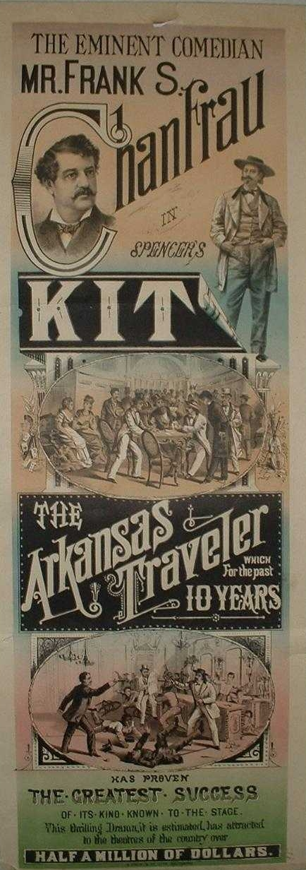 Kit, The Arkansas Traveler with Frank S. Chanfrau, poster, c. 1880